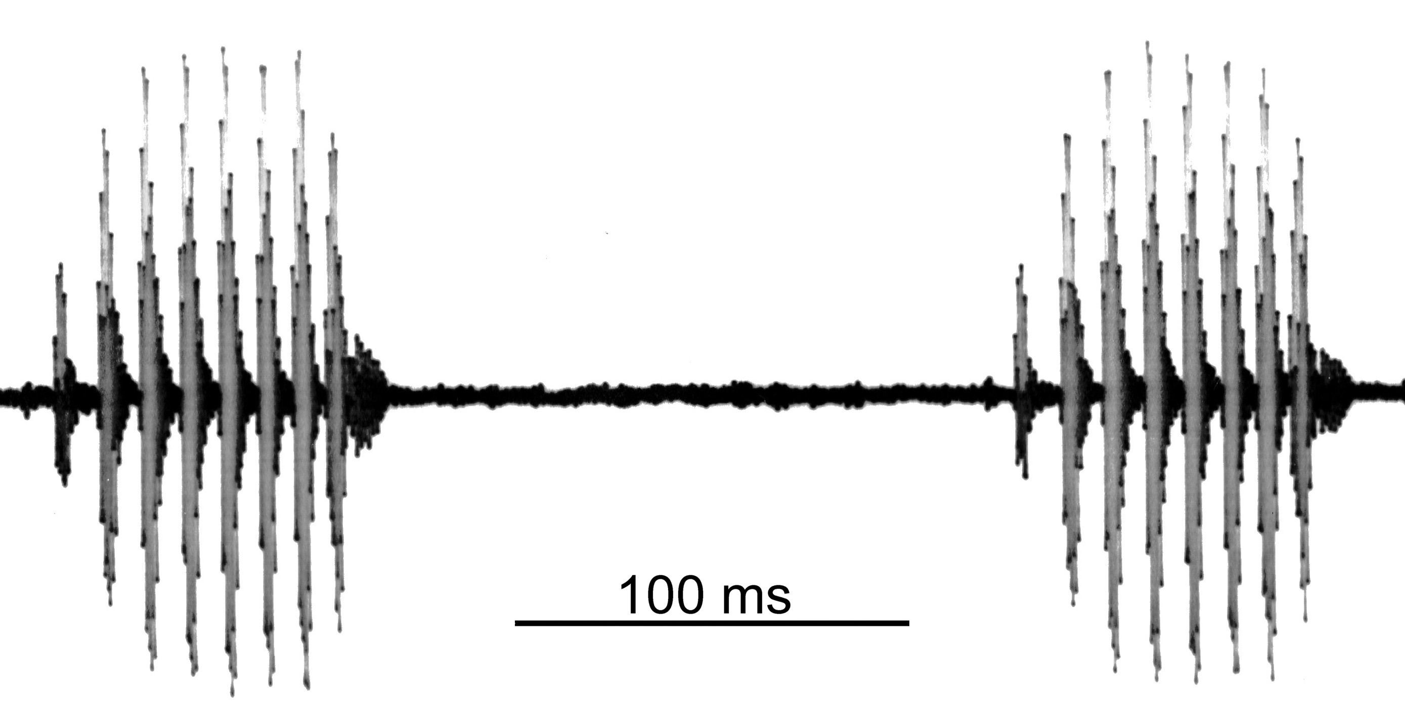 Two pulse groups of a mating call of a treefrog male. Sound recording on June 19, 1967 at Tübingen, Baden-Wuerttemberg. The air temperature was 12 degrees Celsius